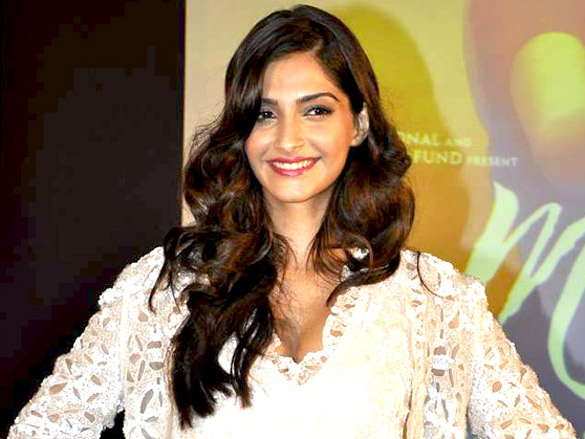 Sonam Kapoor at 'Mausam' music success bash